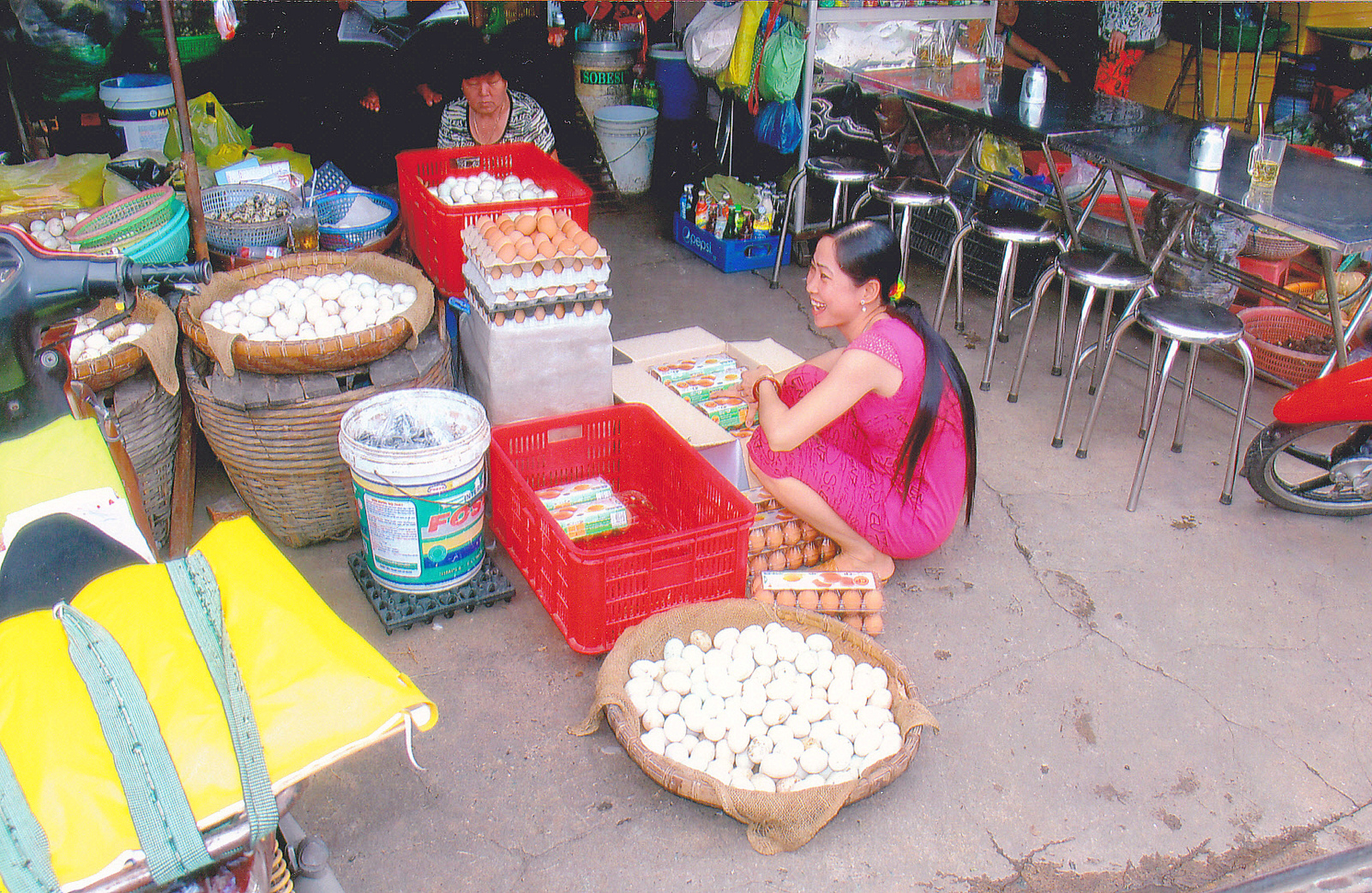 Crouching market woman with a lot of eggs Vietnam